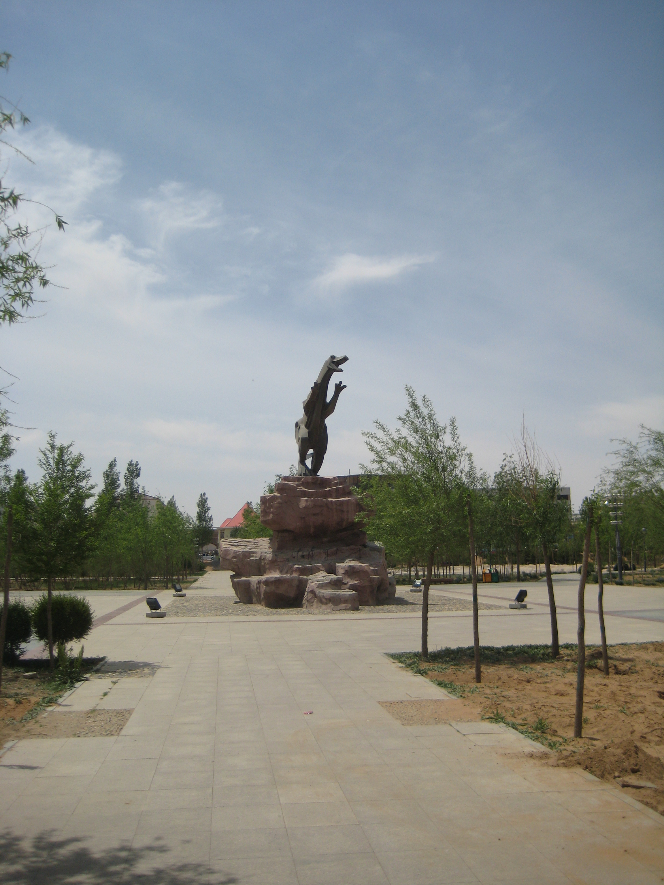 A dinosaur statue in the city Erenhot in Inner Mongolia / China.